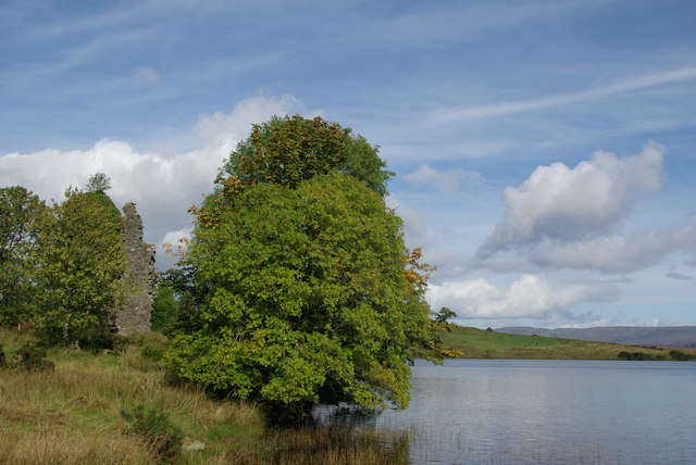 Asgog Castle & loch Fragmentary remains of a Lamont stronghold dating from the 15th century, besieged & destroyed by the Campbells in 1646.